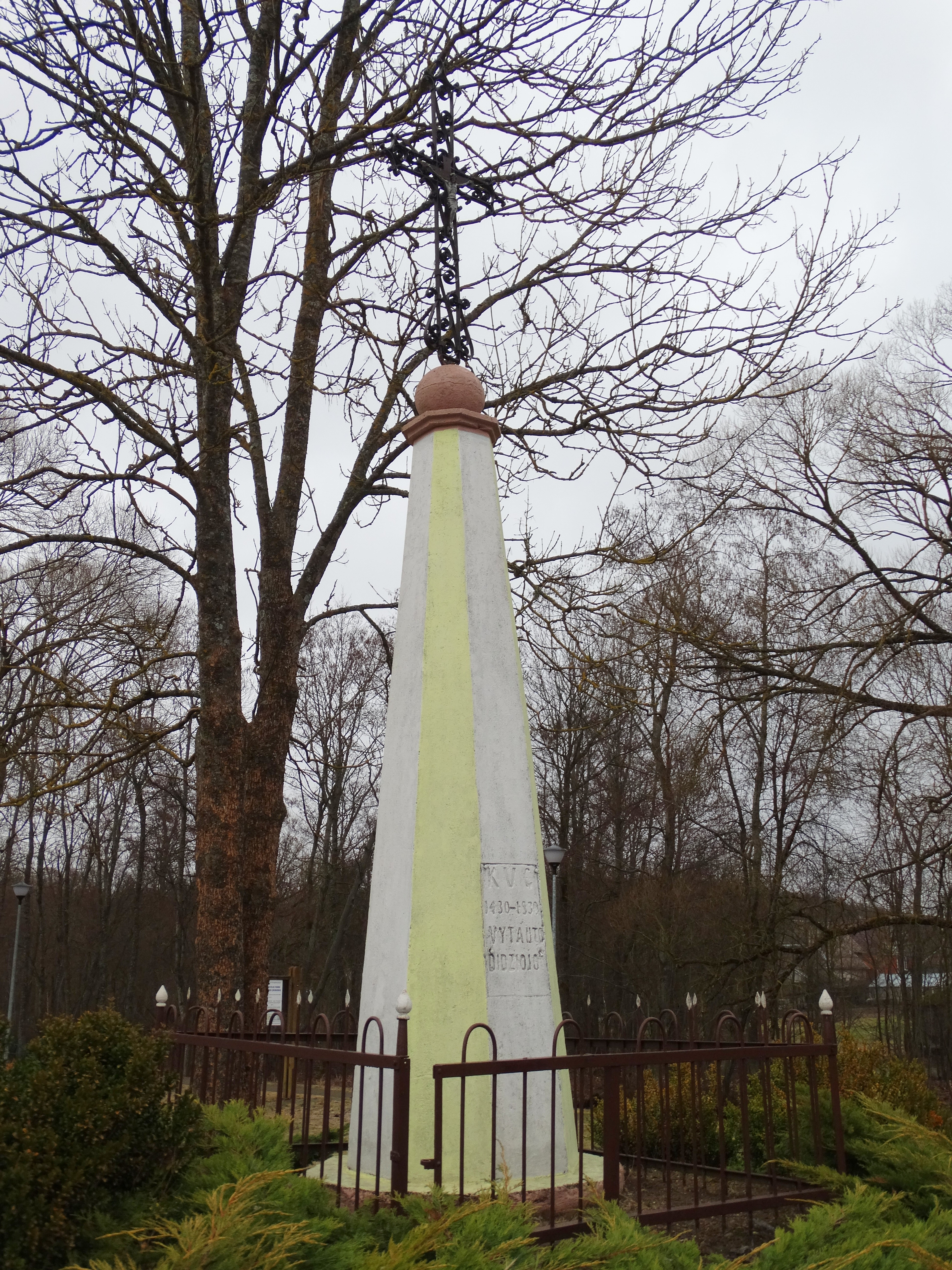 Monument to Vytautas the Great, Kuktiškės, Utena district, Lithuania